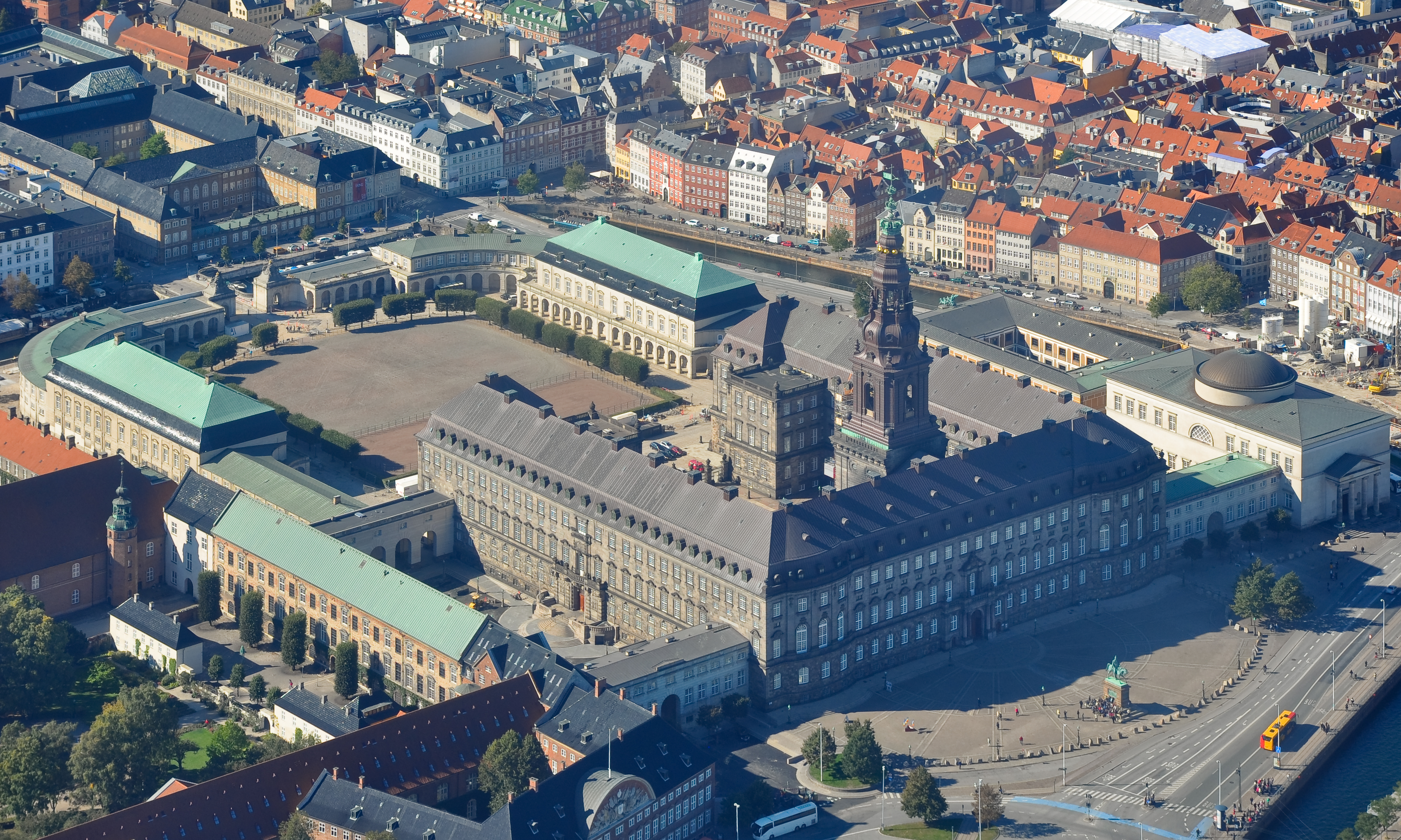 Aerial view of Christiansborg Palace, Copenhagen, Denmark, from the East.